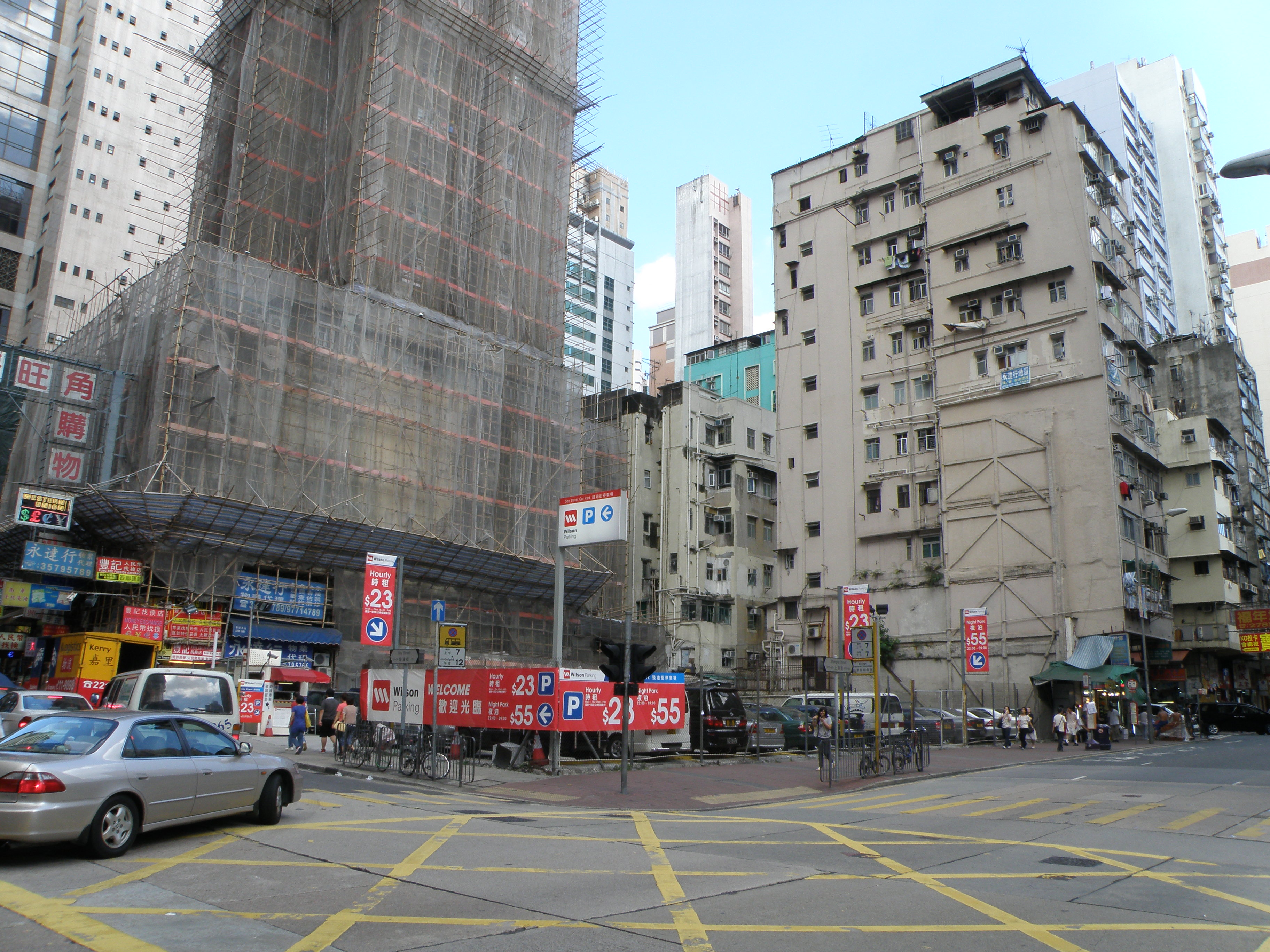 480 Shanghai Street (former Tong lau, also known as tenement buildings built before Second World War, now is a outdoor car park) in Mong Kok, Hong Kong.